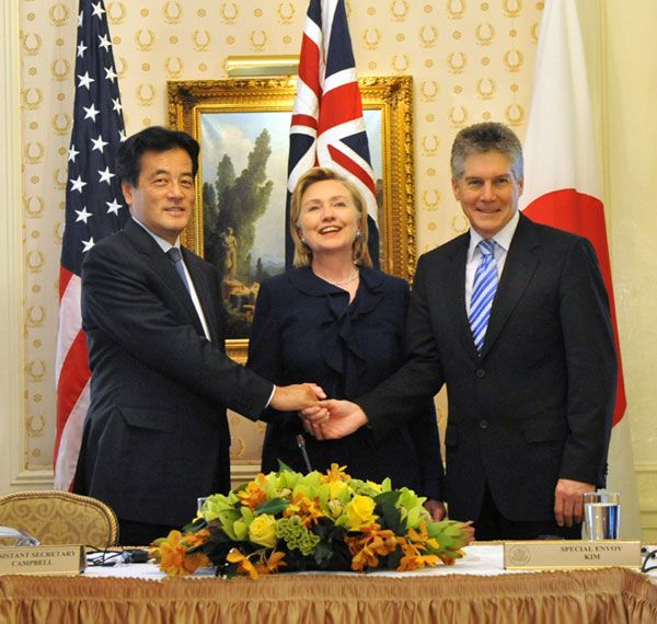 Hillary Rodham Clinton, Secretary of State, met Katsuya Okada, Minister for Foreign Affairs, and Stephen Smith, Minister for Foreign Affairs, at the Waldorf-Astoria Hotel in New York City, New York State on September 21, 2009.